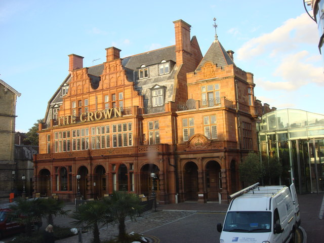 Crown Moran Hotel A Luxury Hotel at 142-152 Cricklewood Broadway Their website